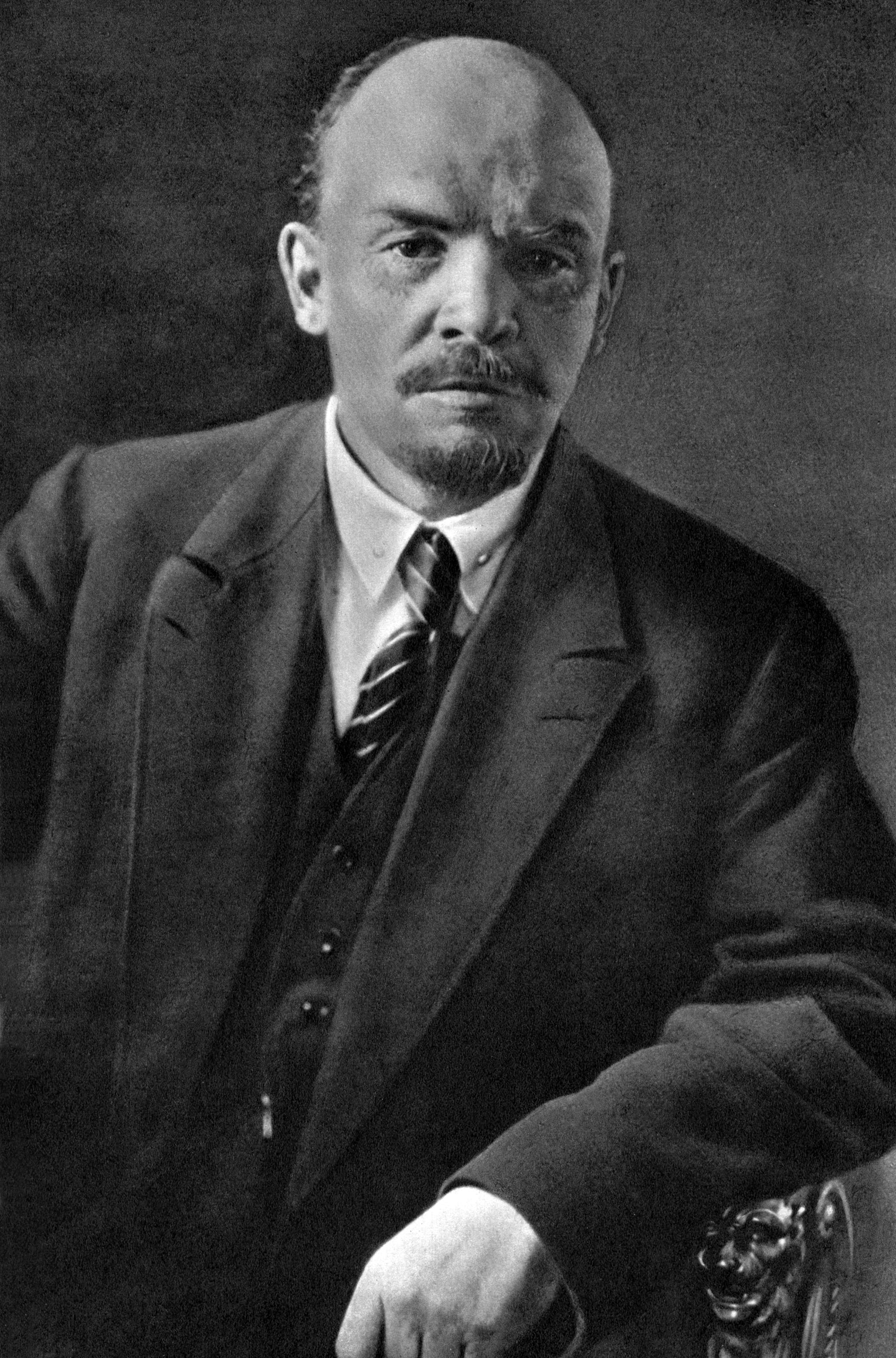 This is a publicity image of the Russian revolutionary leader Vladimir Lenin, taken in 1920. It has been reproduced widely, both in print and online (for instance here).